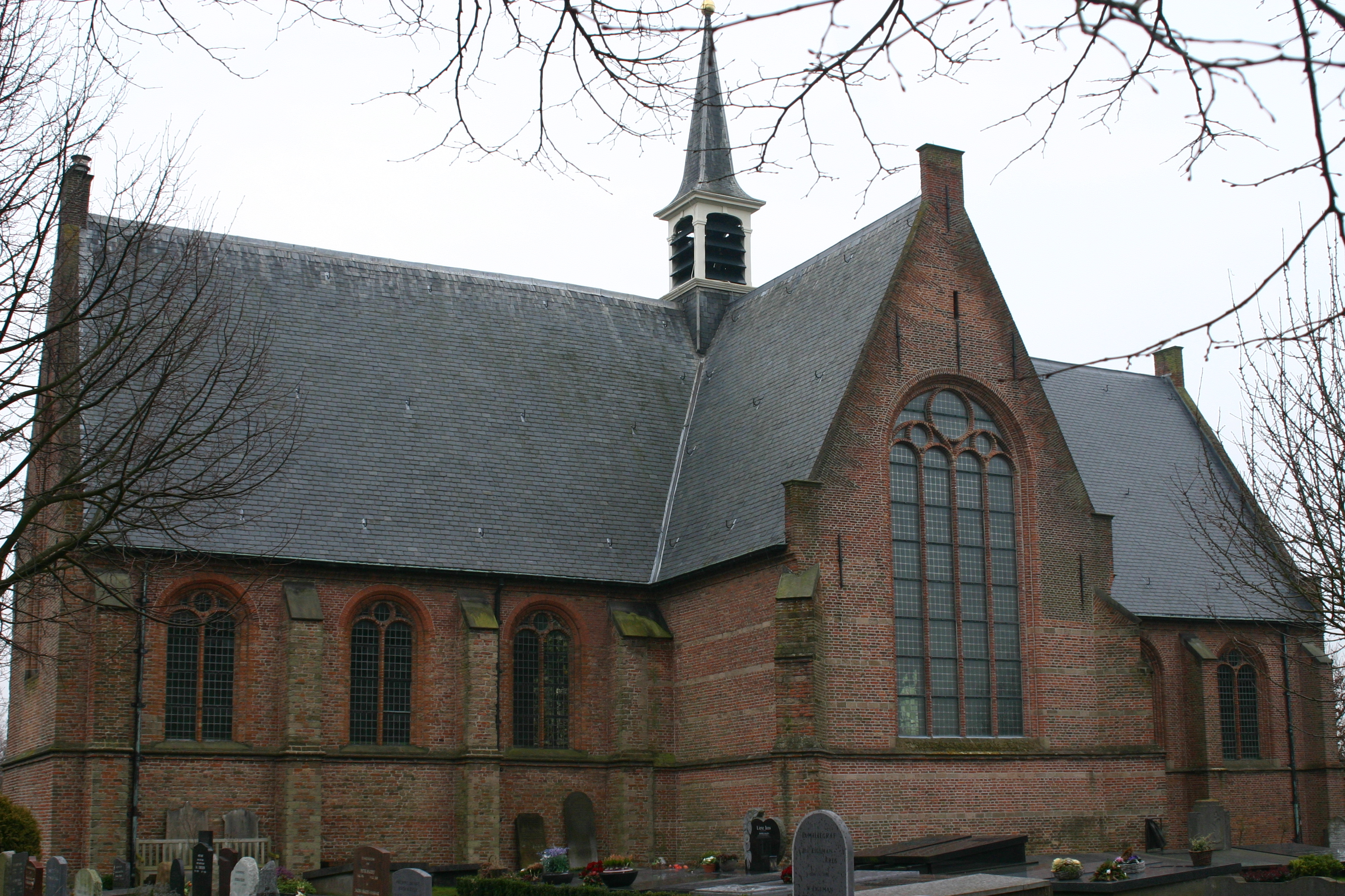 Fifteenth century Saint Willibrord's church, Oegstgeest. Founded as one of the oldest churches in Holland.